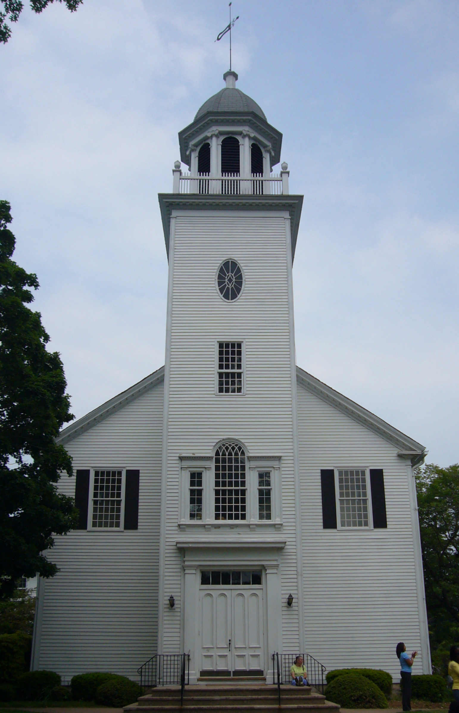 Orange Congregational Church in Orange, CT (US). Photo taken by User:Staib on May 27, 2007.